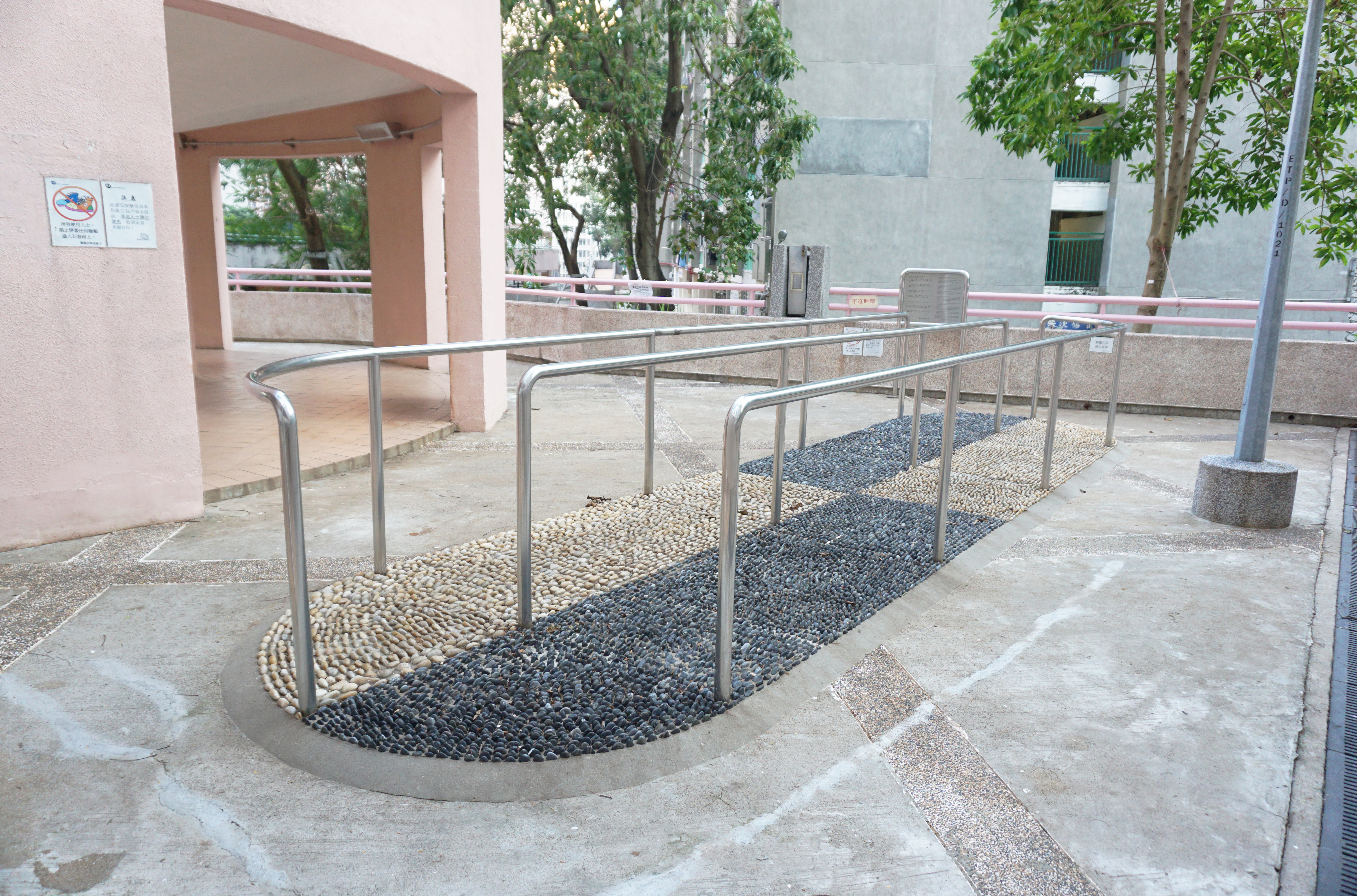 Po Pui Court in Kwun Tong, Hong Kong.